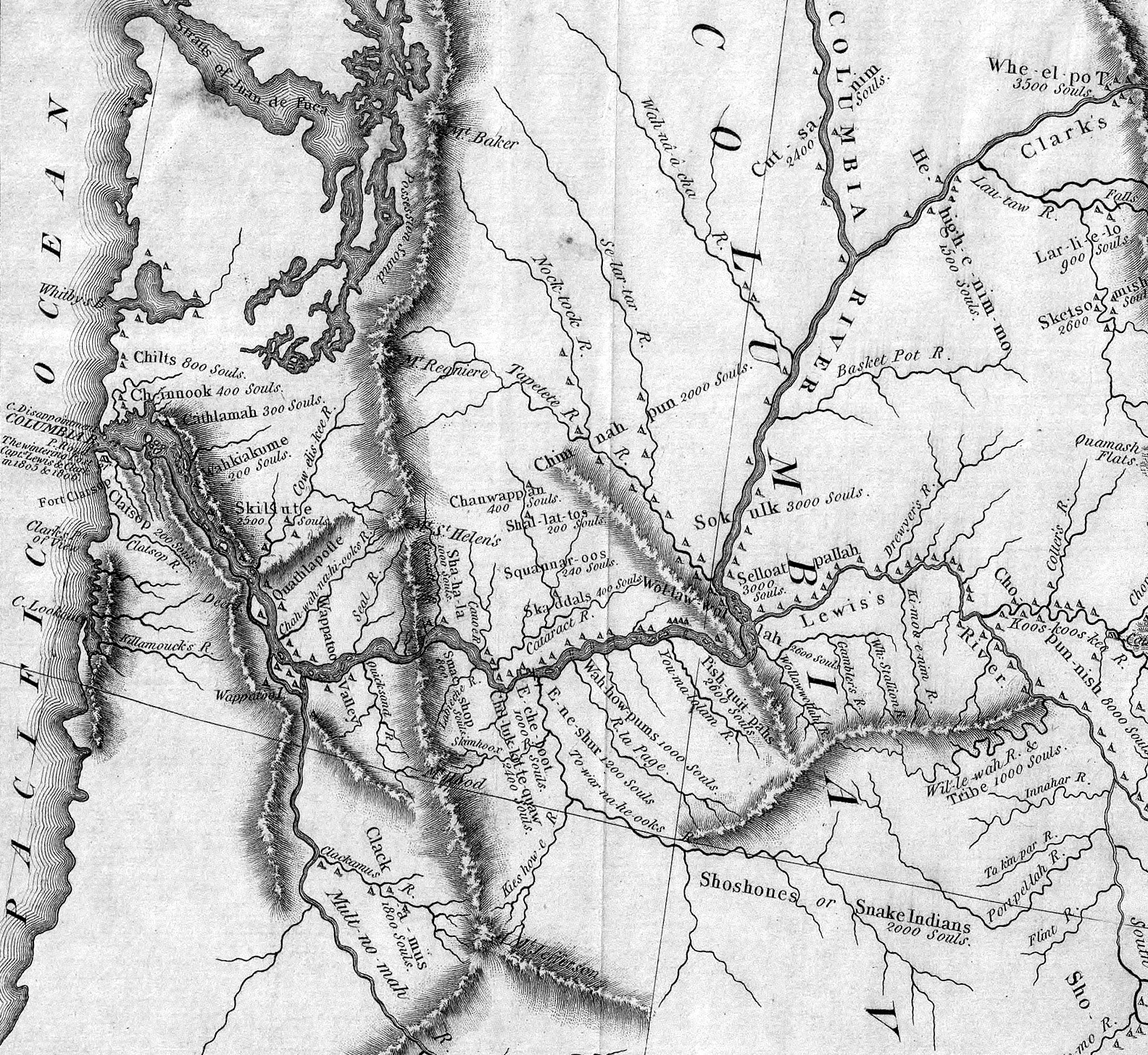 Detail of the Lewis & Clark expedition map showing the Columbia River. The Willamette River is identified as the "Multnomah River." The Snake River is "Lewis's River."